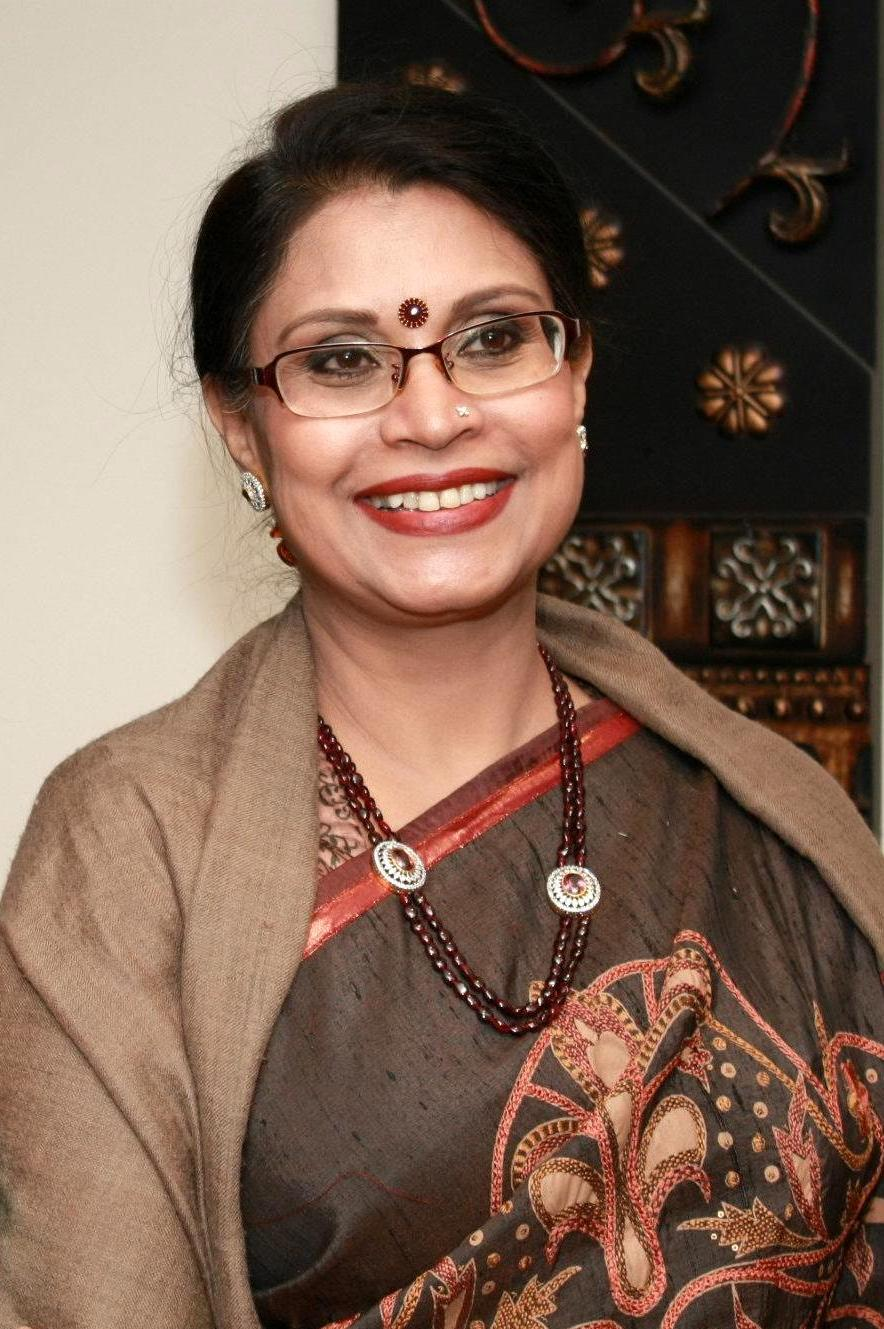 Rezwana Choudhury Bannya performing songs in New Jersey on April 2012.